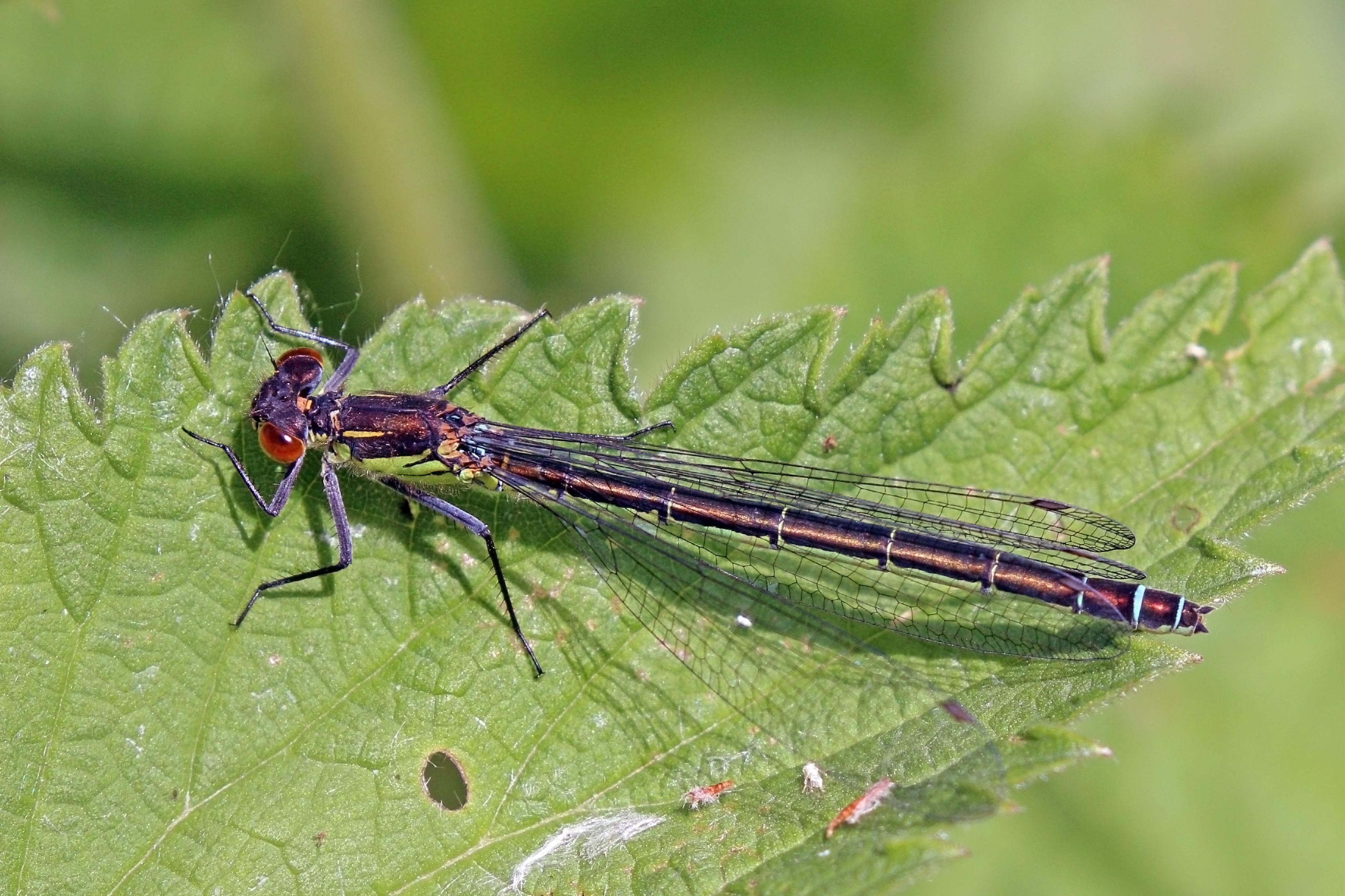 Red-eyed damselfly (Erythromma najas) female, Barton Fields, Oxfordshire